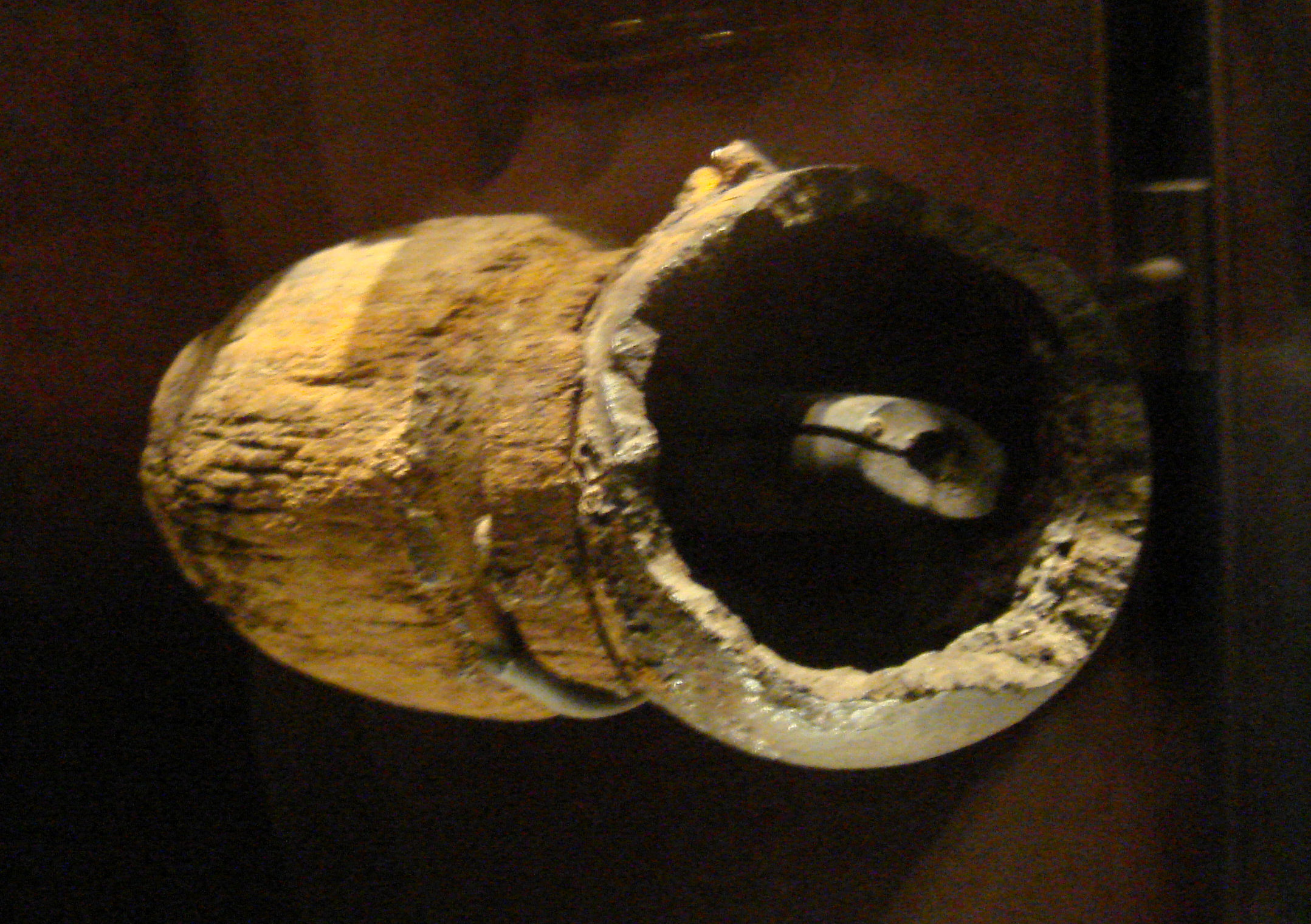 18th_century_French_grenade_to_be_used_with_a_grenade_launcher.